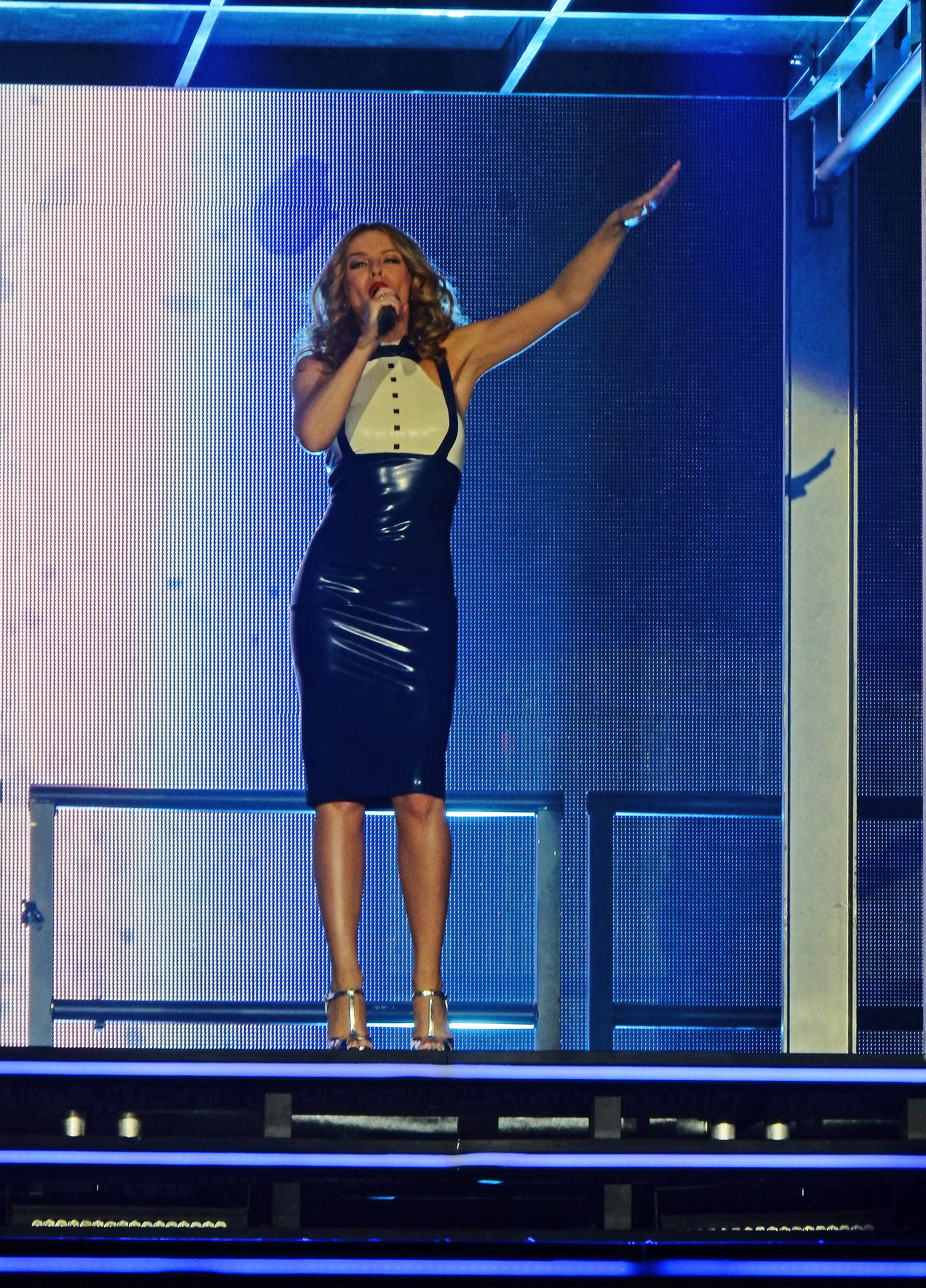 Kylie Minogue - Kiss Me Once Tour - Sheffield - 13.11.14. - 291